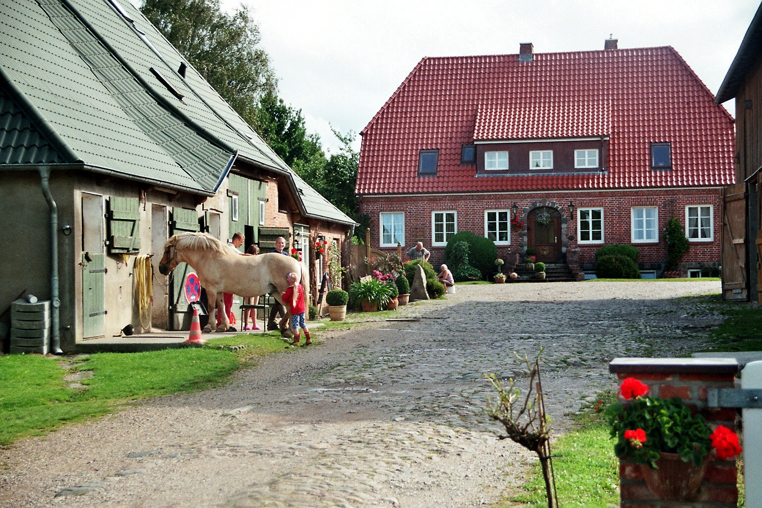 Prasdorf, farm